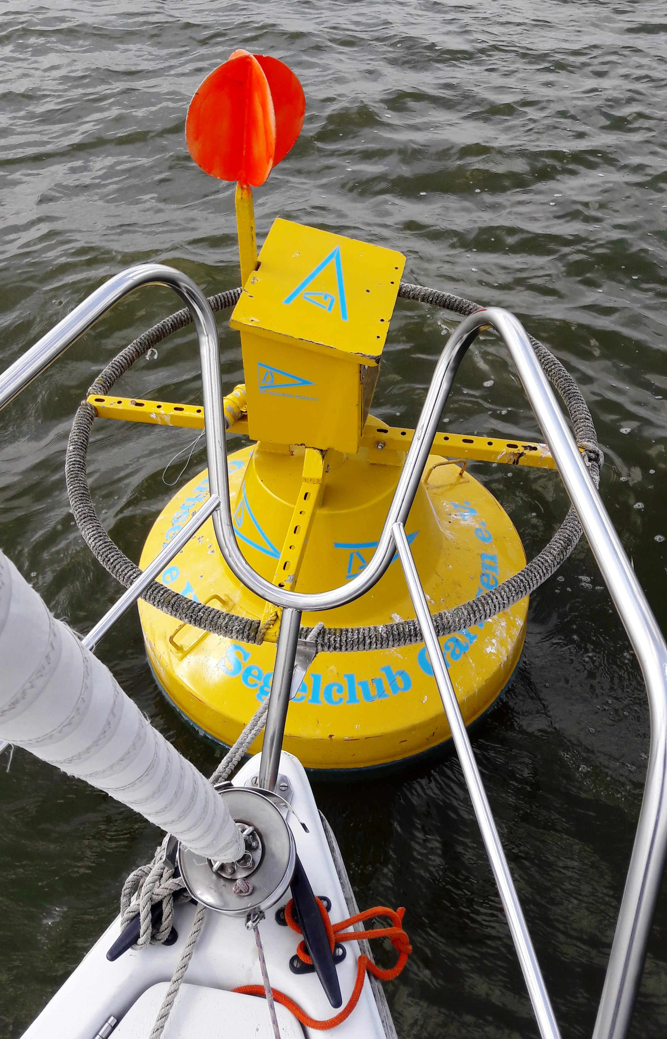 Mail buoy in Steinhuder Meer